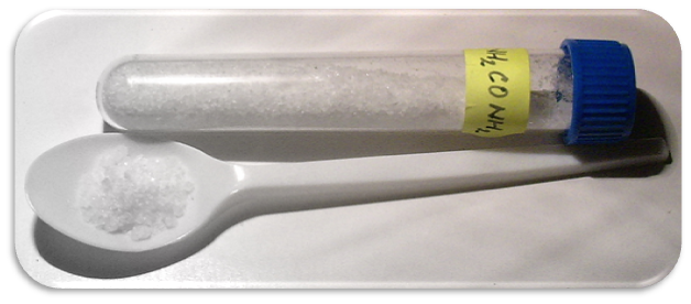 Urea - NH2CONH2